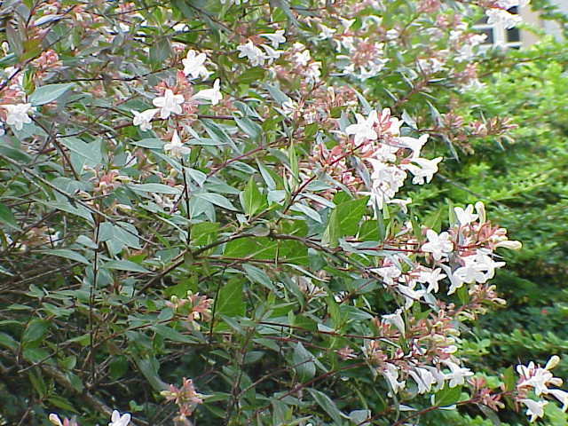 Species: Abelia floribunda Family: Caprifoliaceae Image No. 4